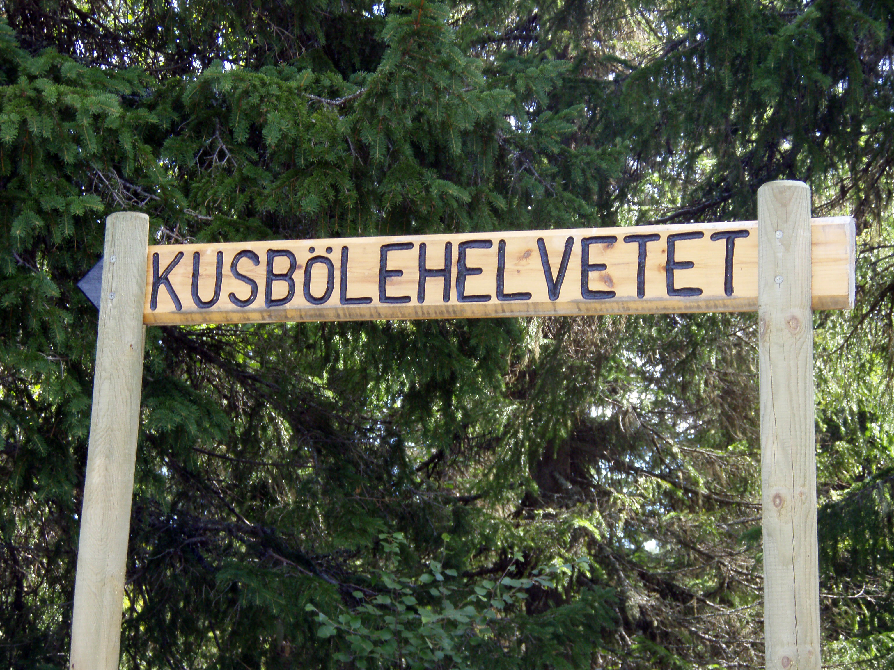 Signpost reading Kusbölehelvetet ("The Hell of Bellowing Horses").